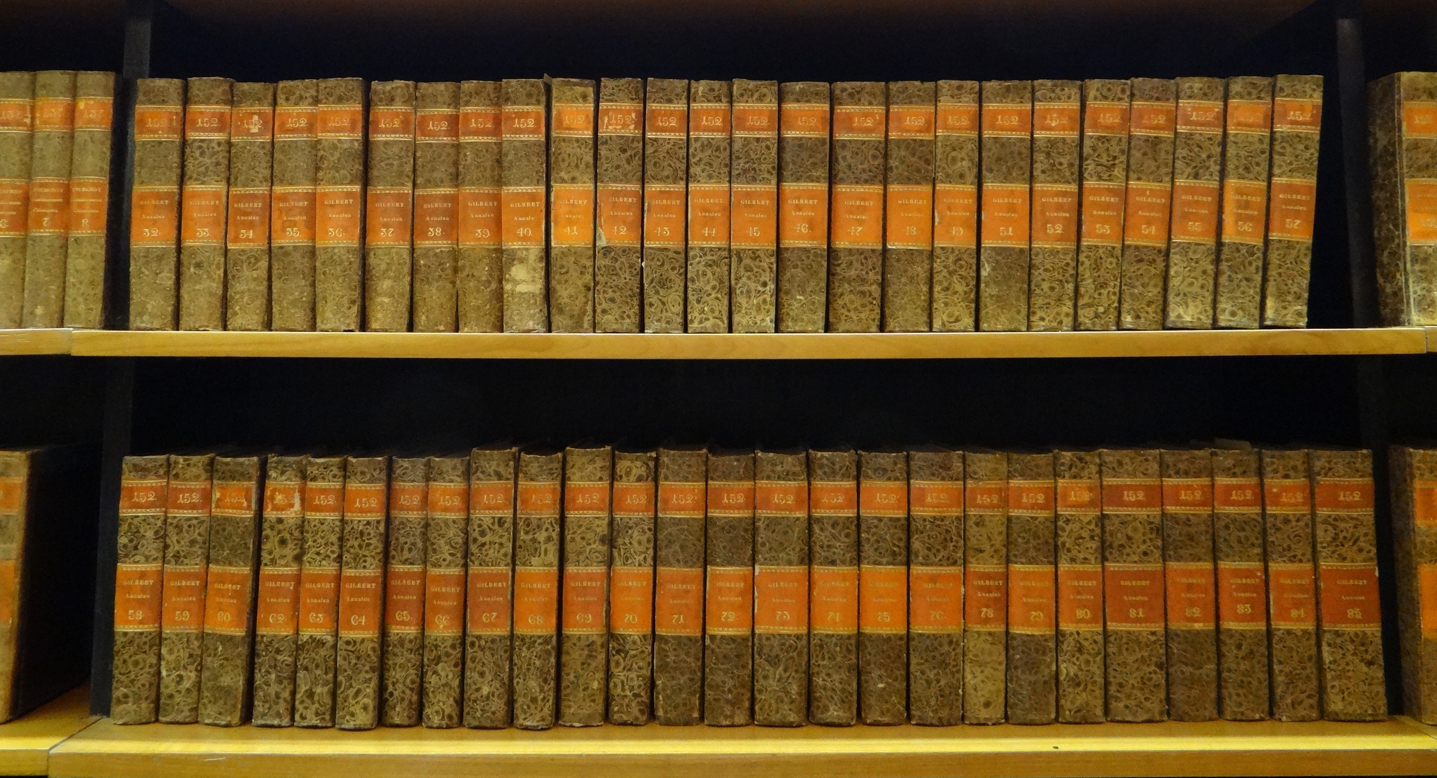 Selmec Museum Library, Miskolc, Hungary, Books from Category 2